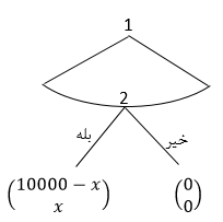 شکل گسترده بازی اولتیماتوم